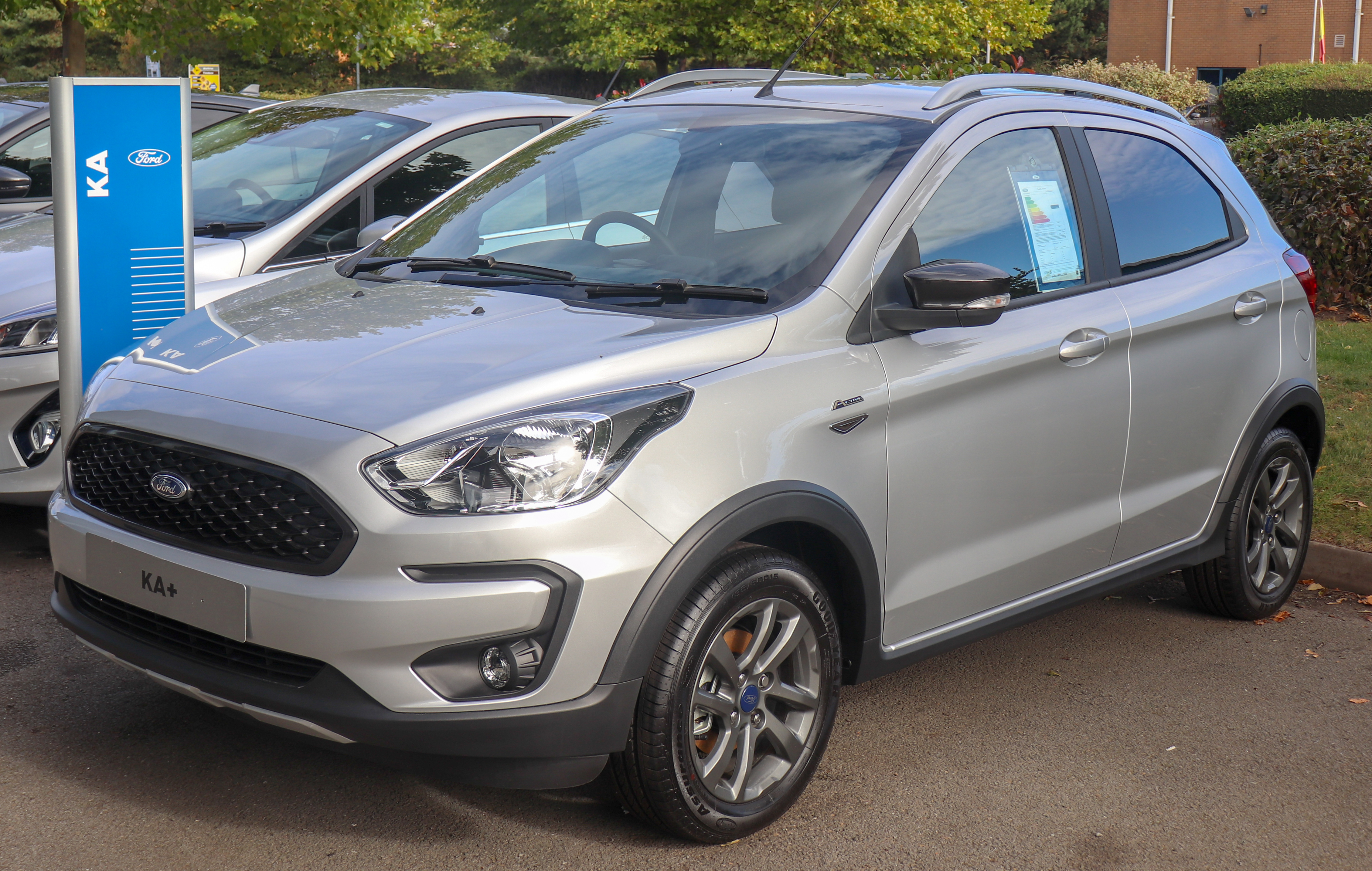 2018 Ford KA+ Active Taken in Leamington Spa